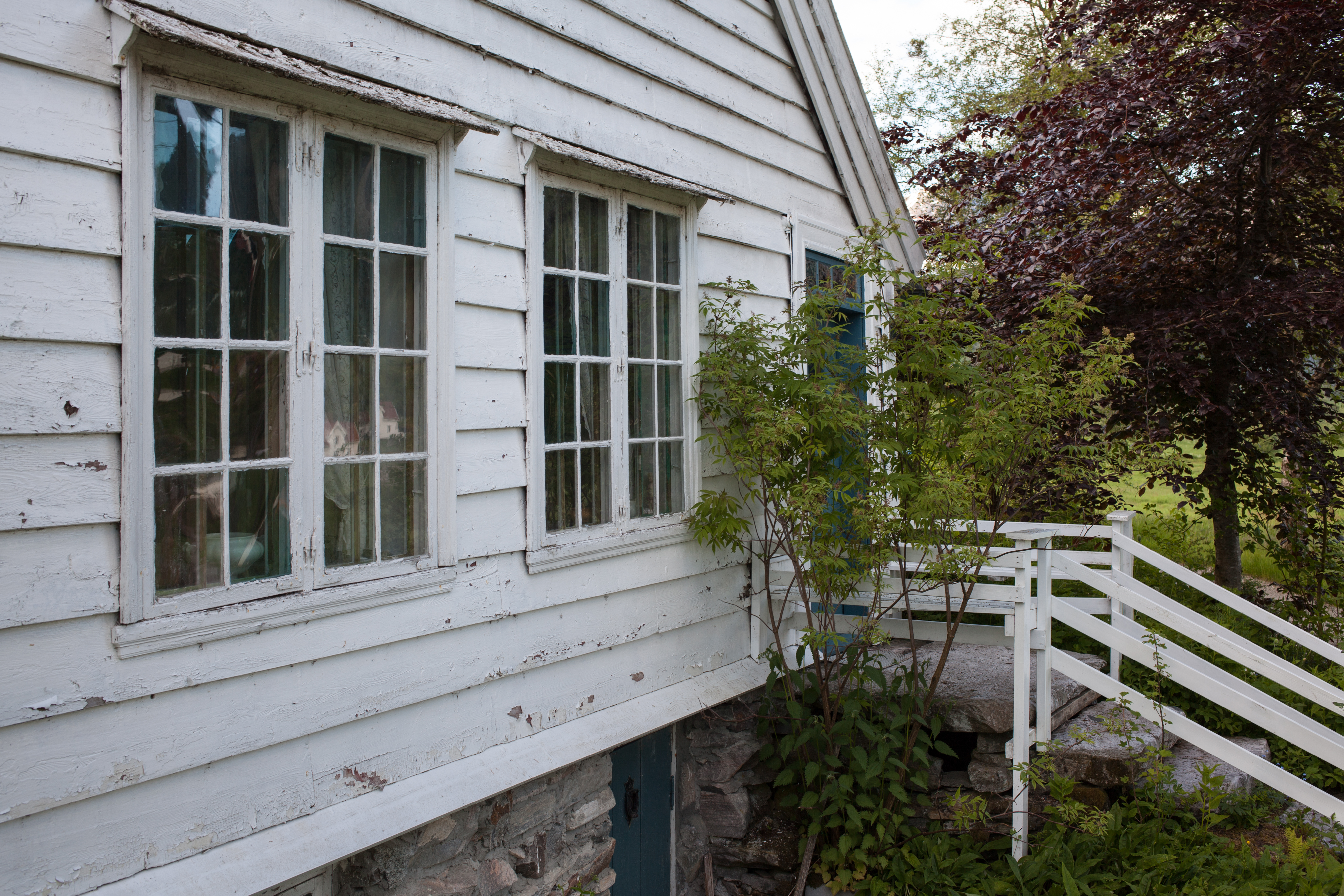 The Parsonage in Ålhus, Astrup's childhood home